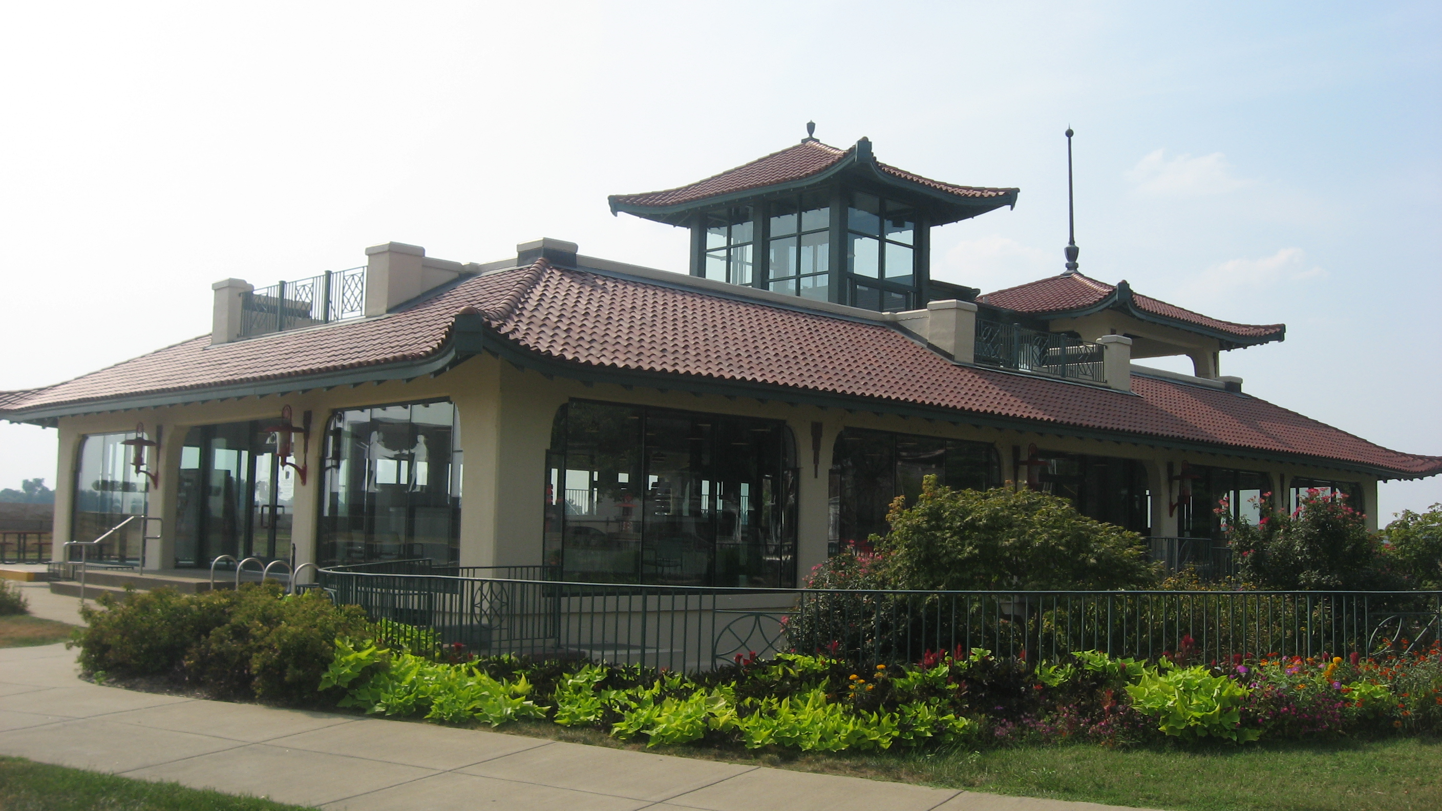 Front and southeastern side of the Sunset Park Pavilion, located at 411 SE. Riverside Drive in Evansville, Indiana, United States. Built in 1912, it is listed on the National Register of Historic Places.